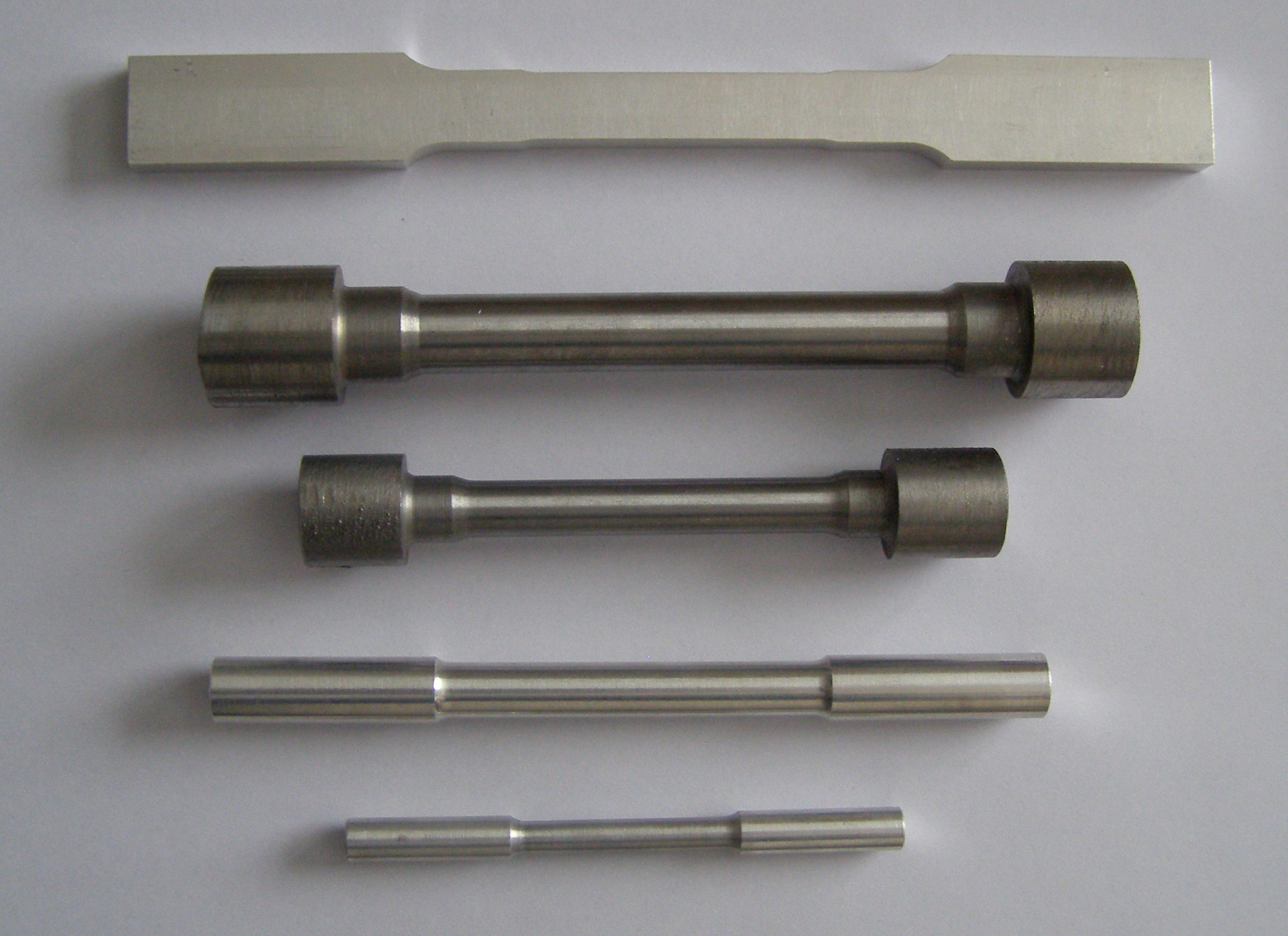 Different examples of steel and aluminium alloy specimens for tensile test